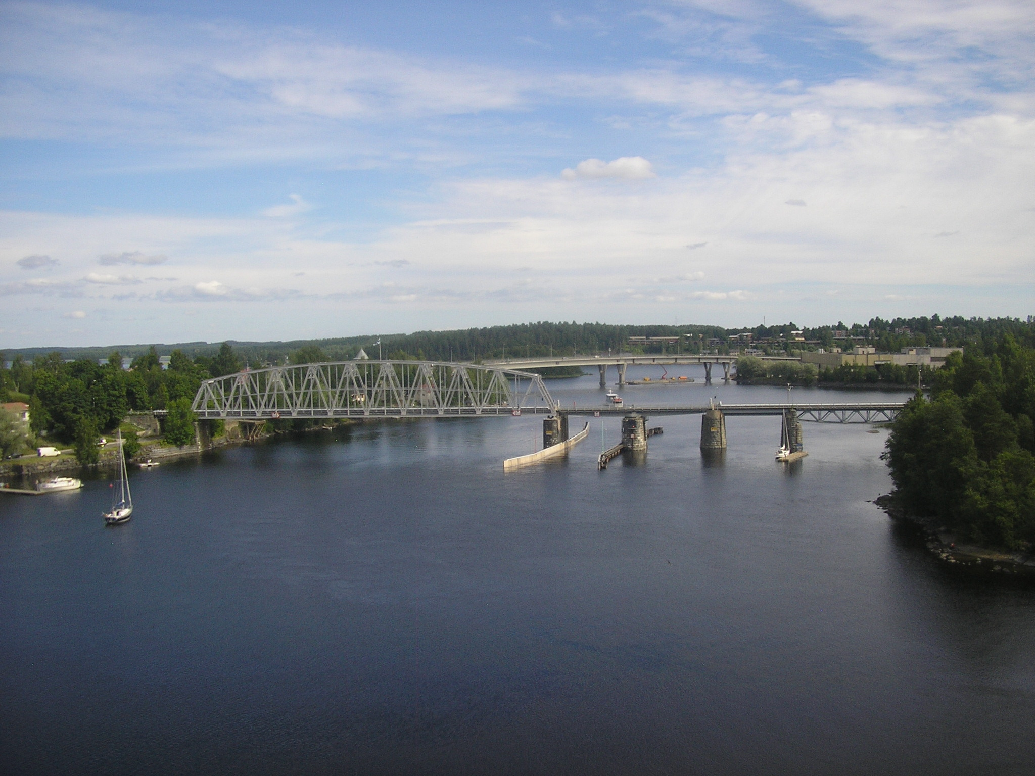 Kyrönsalmi railway bridge in Savonlinna, Finland seen from Olavinlinna